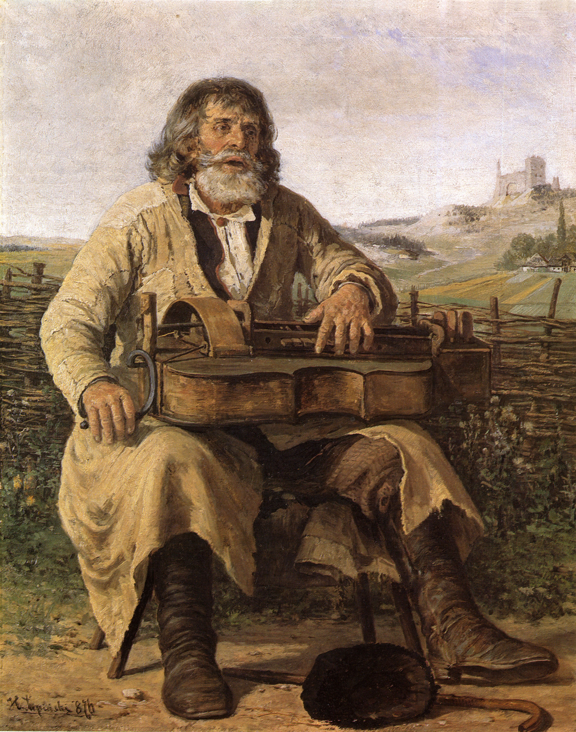 Lirnik (Hurdy-gurdy player)